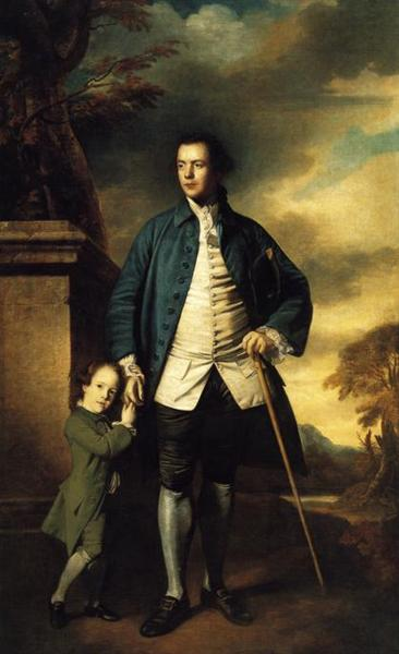 Portrait of Edward Morant later MP by Joshua Reynolds 1759